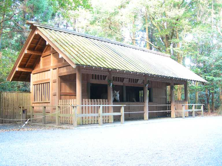 This horse was offered by Imperial Household to Ise Shrine. Its name is "Oka-aki-go". It is a sacred horse, "Shinme".